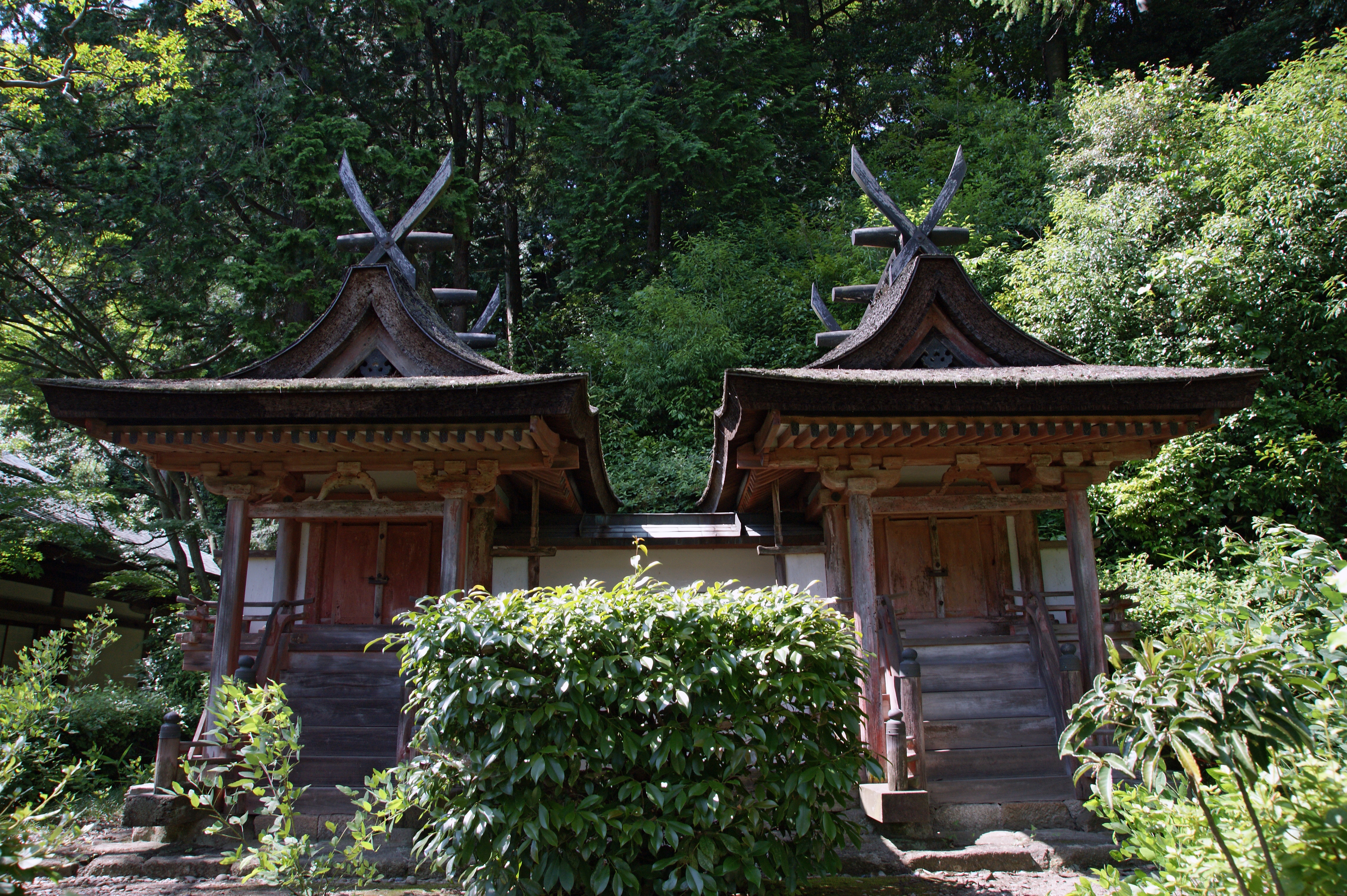 Enjoji in Nara, Nara prefecture, Japan